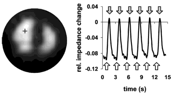 This figure shows Electrical Impedance Tomography data for a 10-day old spontaneously breathing neonate lying in the prone position with the head turned to the left. On the left is a functional EIT image and on the right the impedance change against time for six consecutive breaths. Data were published in S. Heinrich, H. Schiffmann, A. Frerichs, A. Klockgether-Radke, I. Frerichs, Body and head position effects on regional lung ventilation in infants: an electrical impedance tomography study. Intensive Care Med., 32:1392-1398, 2006.